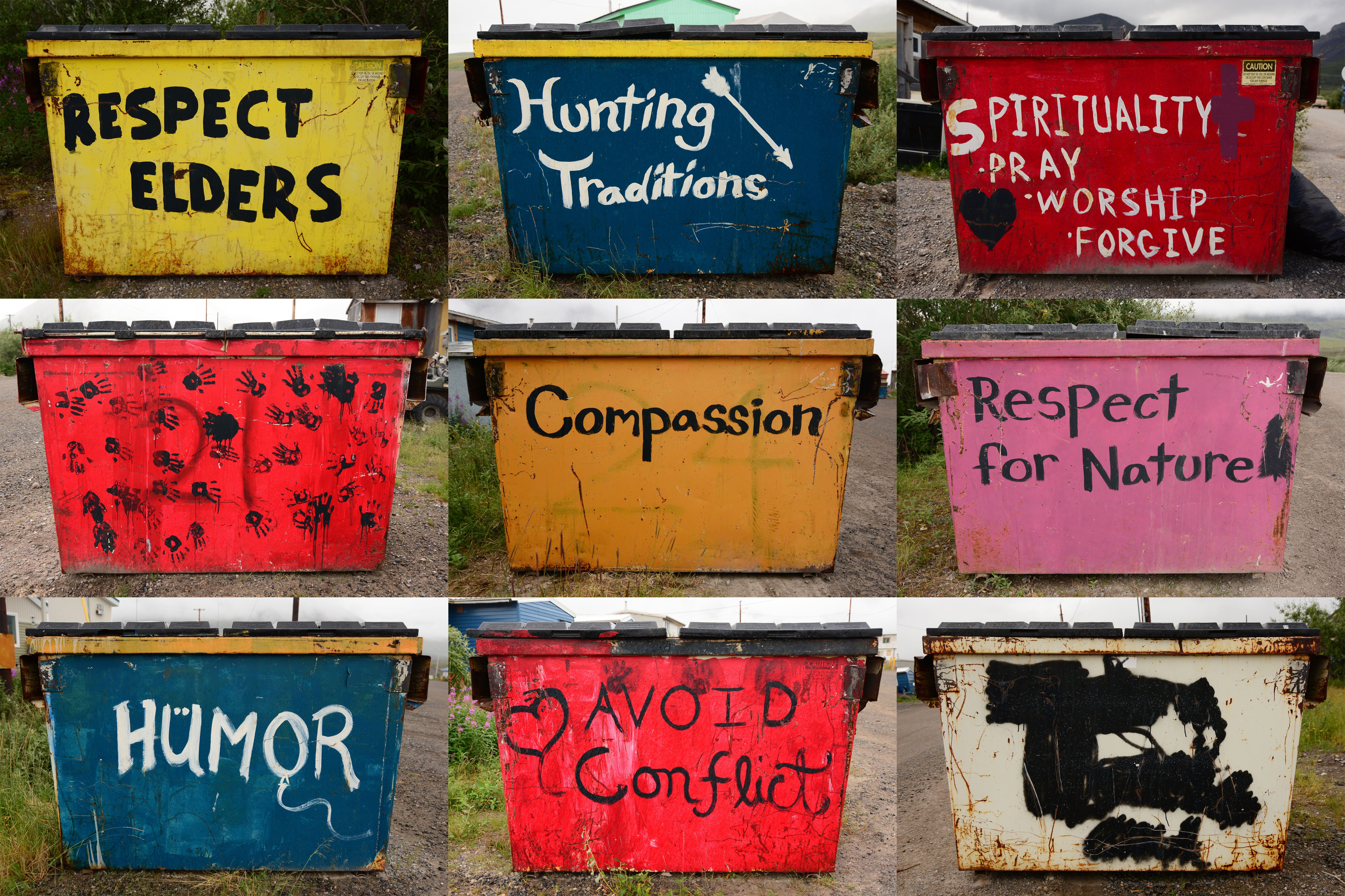 The dumpsters in the Arctic village of Anaktuvuk Pass are painted with slogans that reflect community values